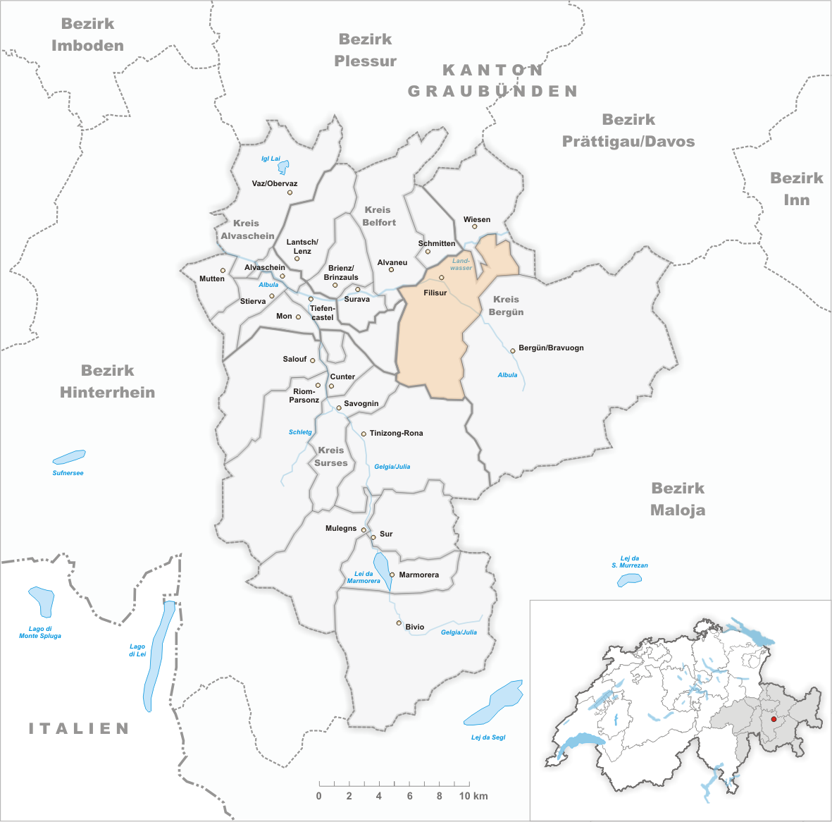 Municipality Filisur